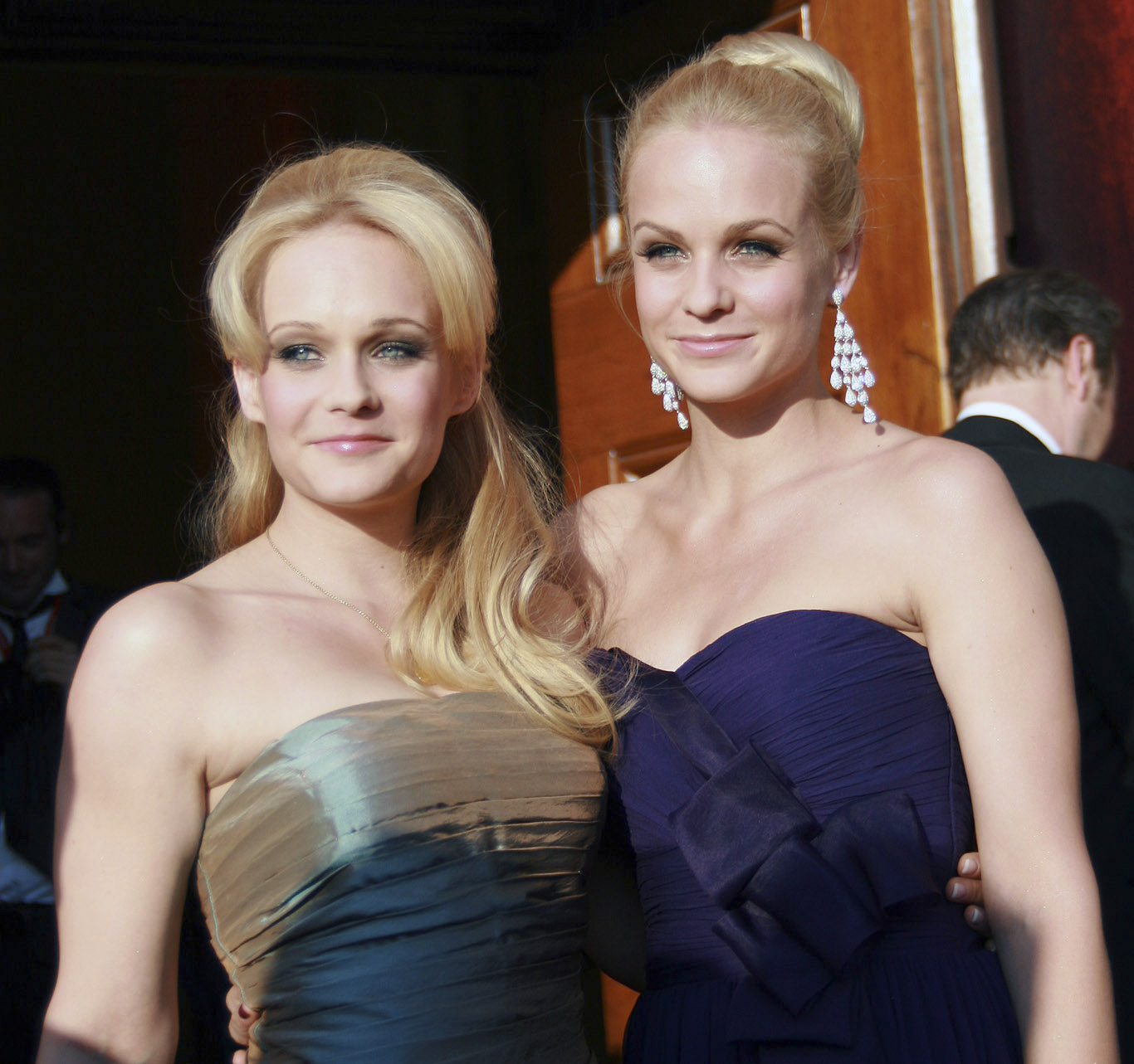 Twins Mirjam Weichselbraun and Melanie Binder at the Romy TV awards (Hofburg Imperial Palace in Vienna)